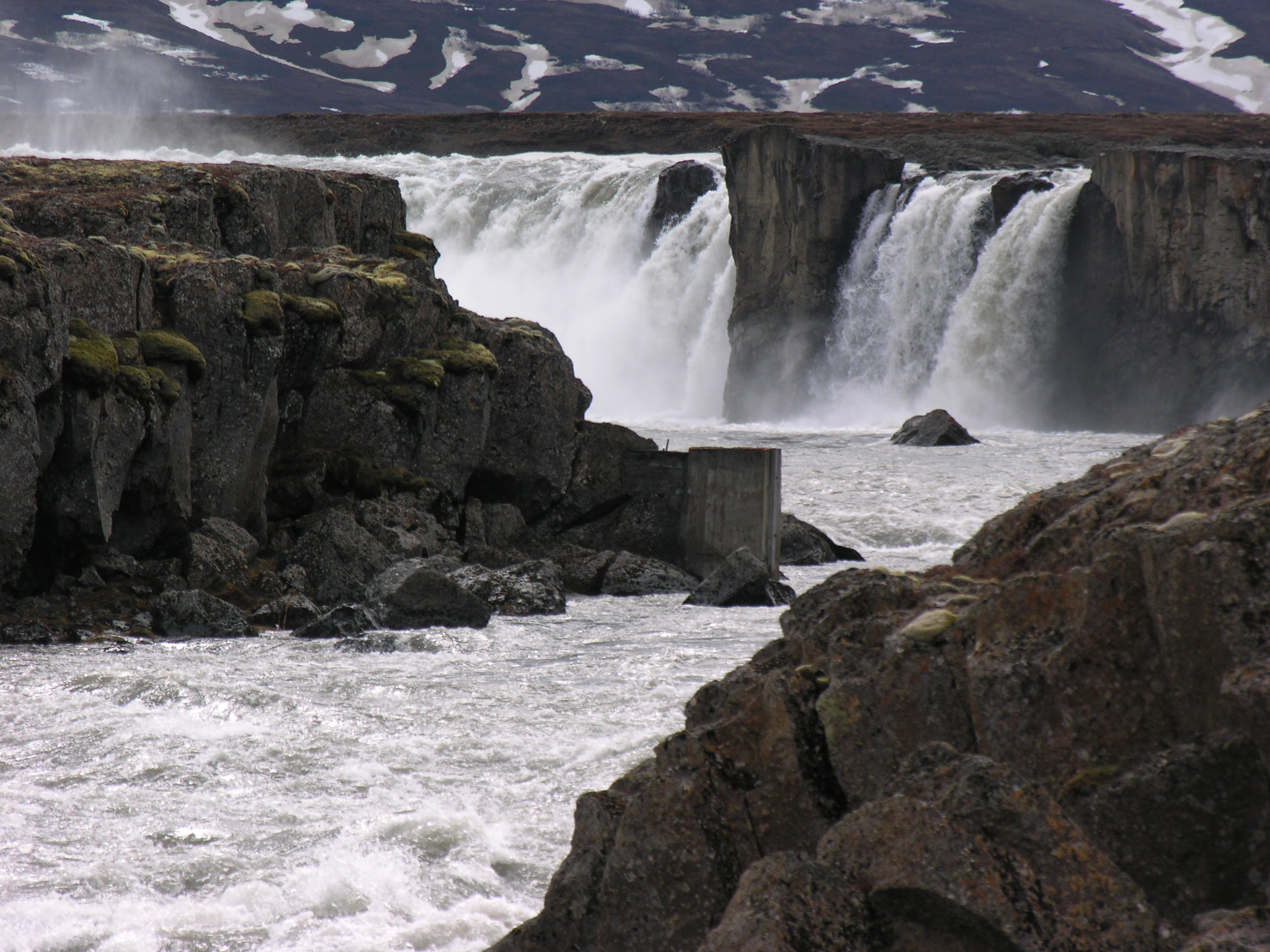 Iceland, Goðafoss